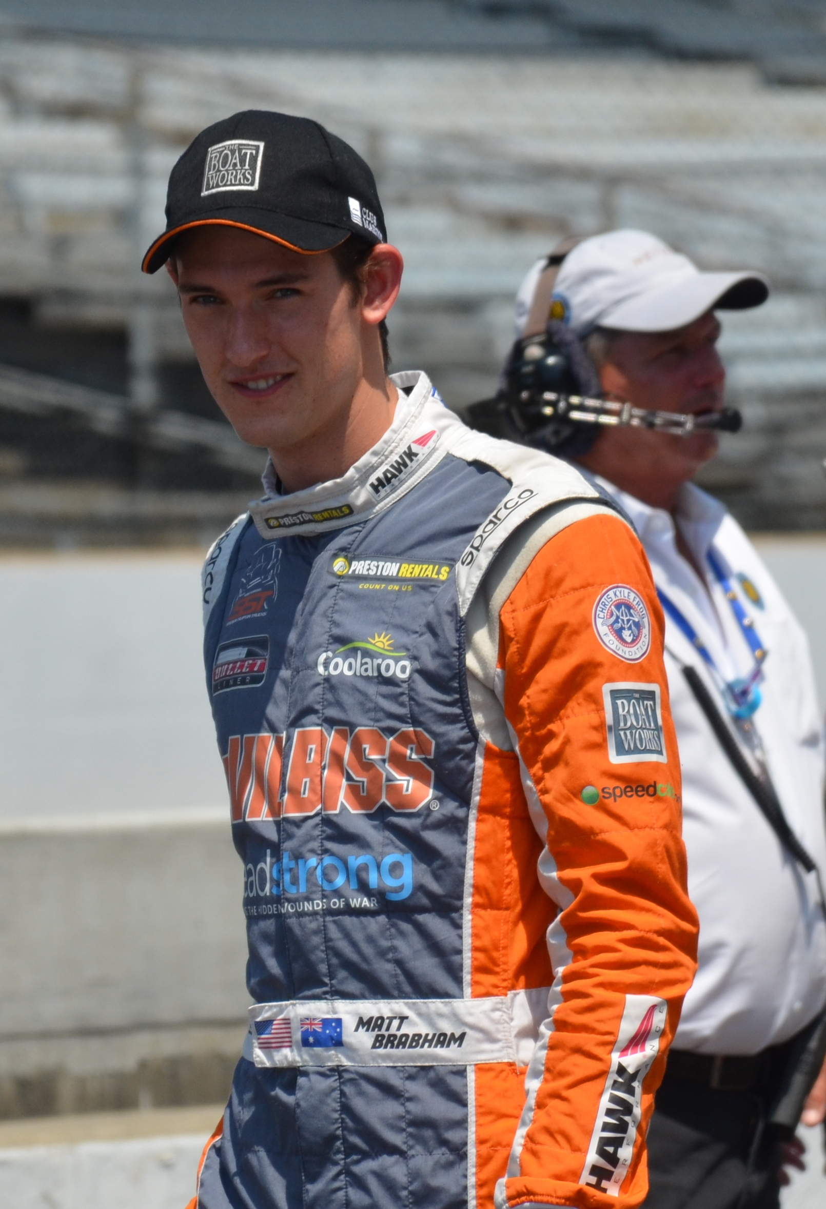 Matthew Brabham at the 2018 SVRA Brickyard Vintage Racing Invitational at the Indianapolis Motor Speedway.